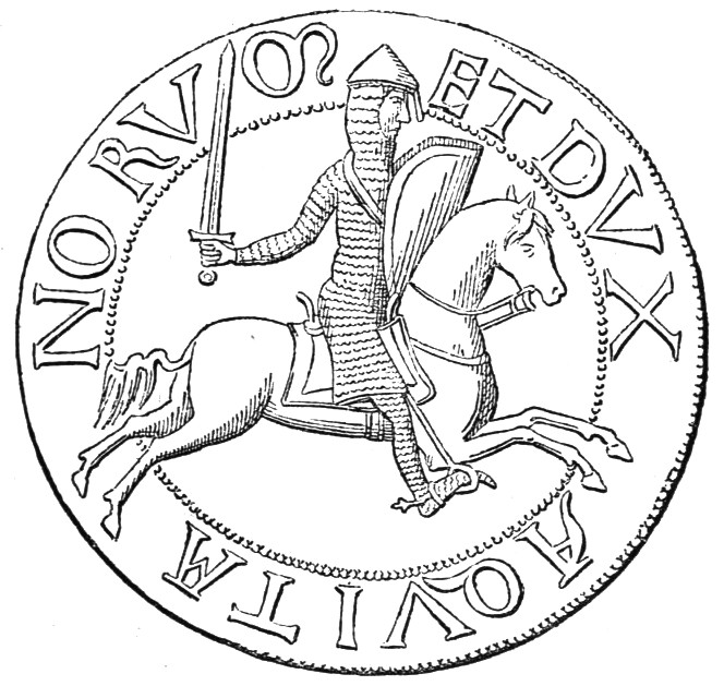 Louis VII